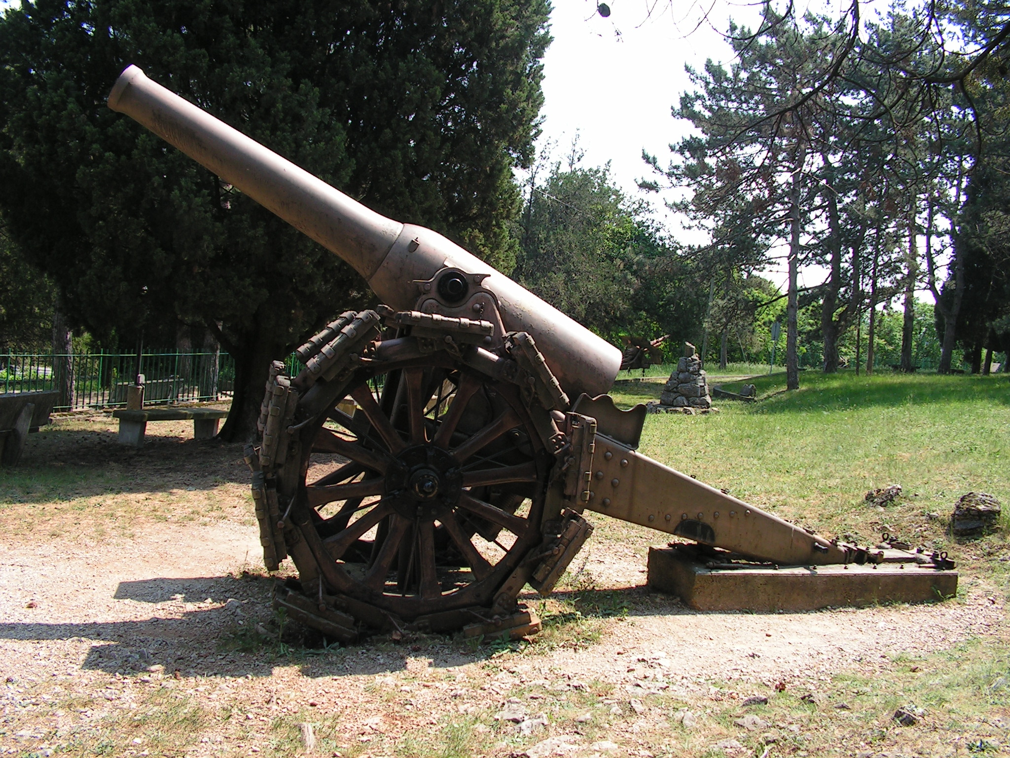 Italian Cannon 149 G